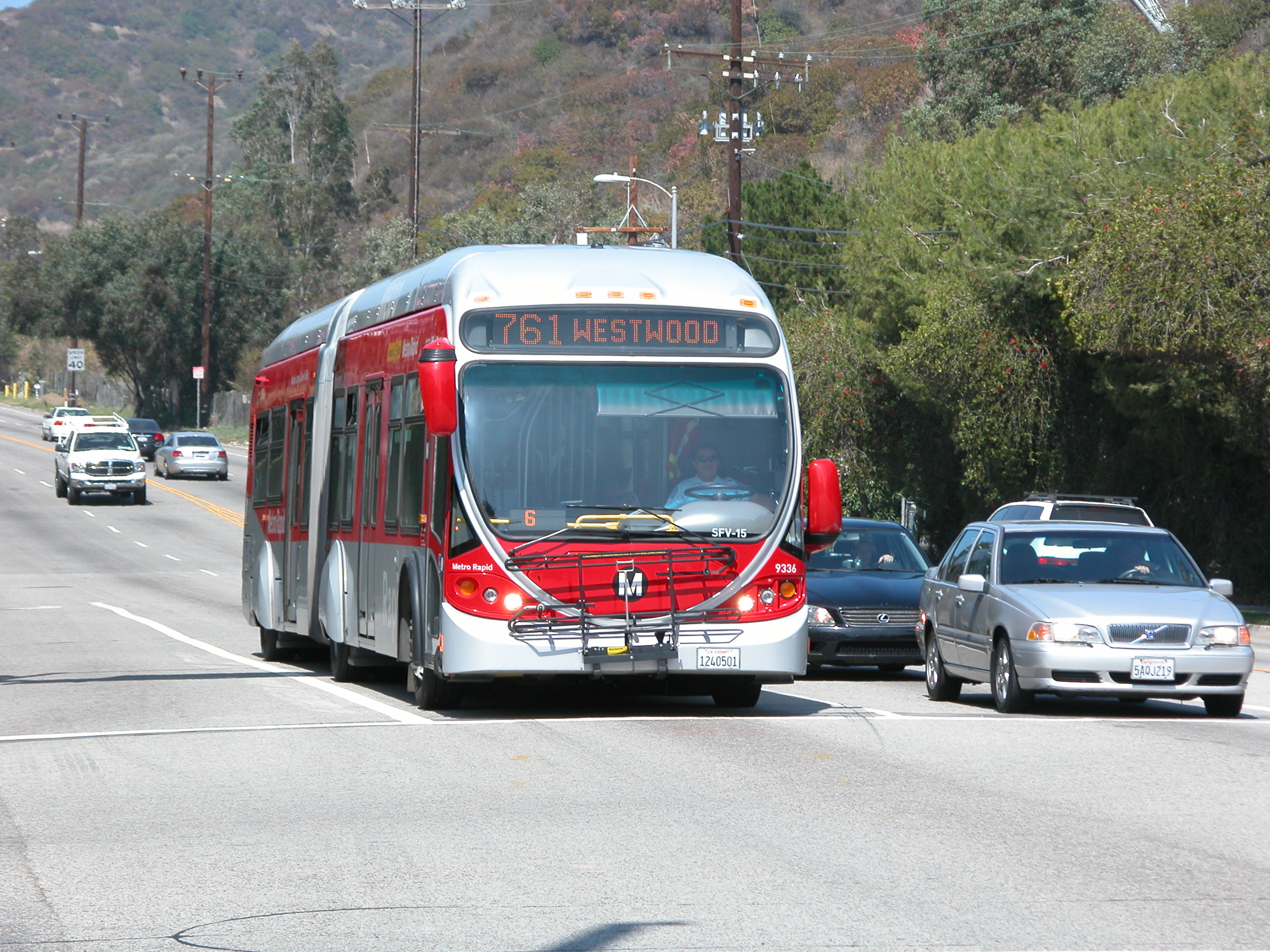 Metro Rapid NABI 60-BRT bus on line 761 towards Westwood